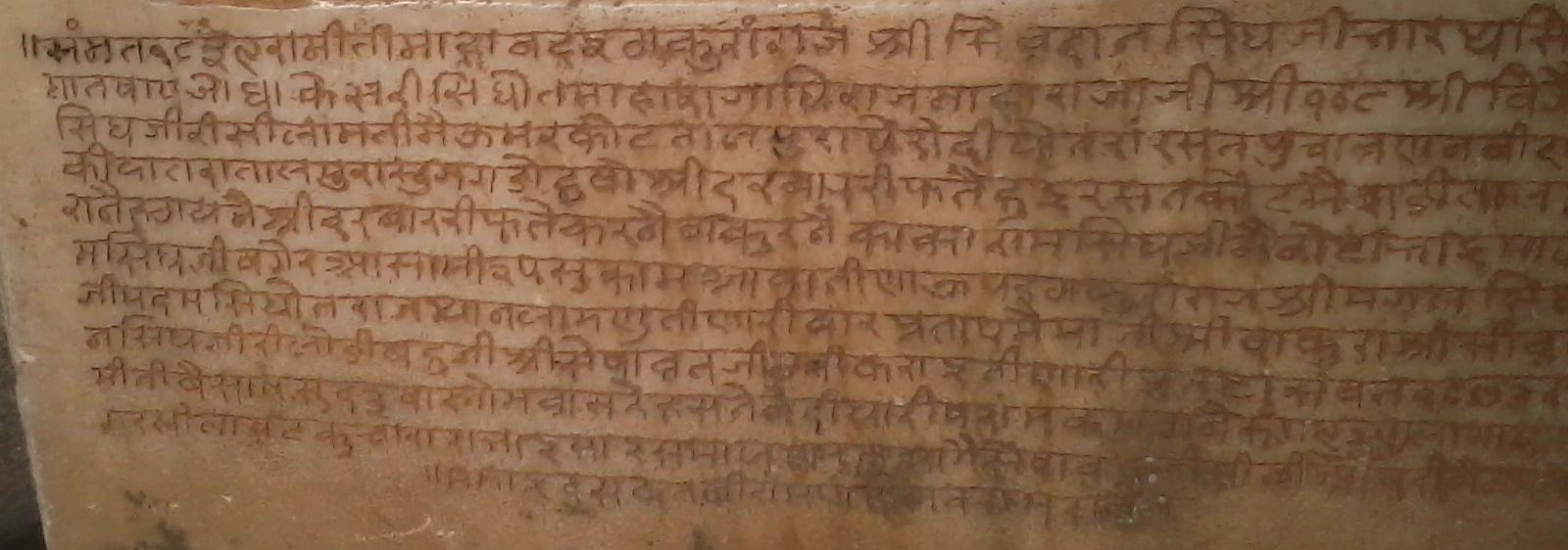 प्रस्तर लेख 2